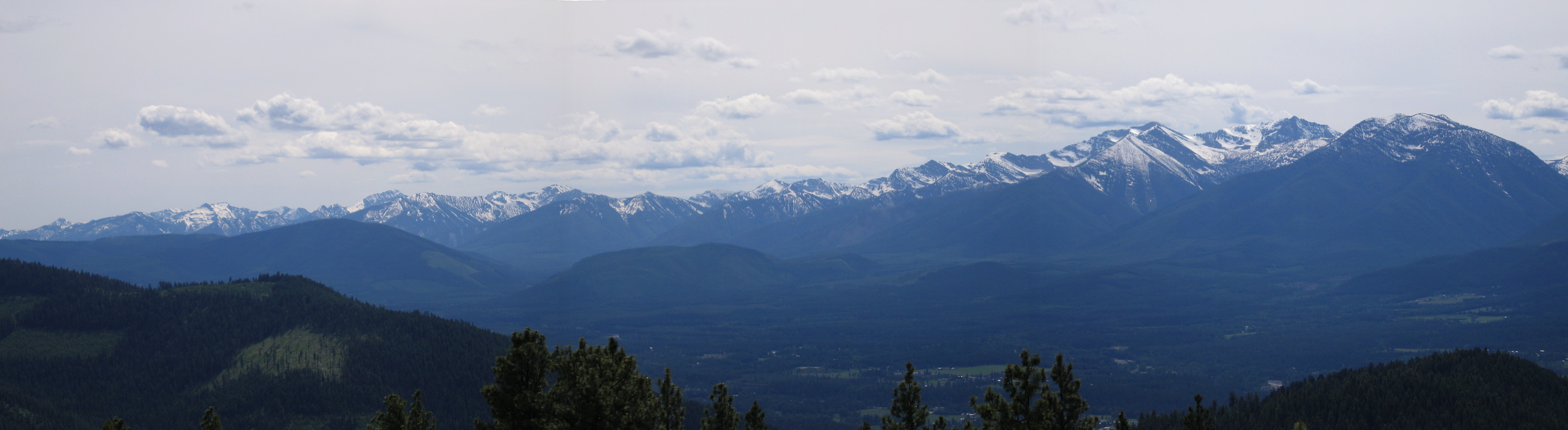 The Southern Cabinet Mountains, as seen from Swede Mountain, near Libby